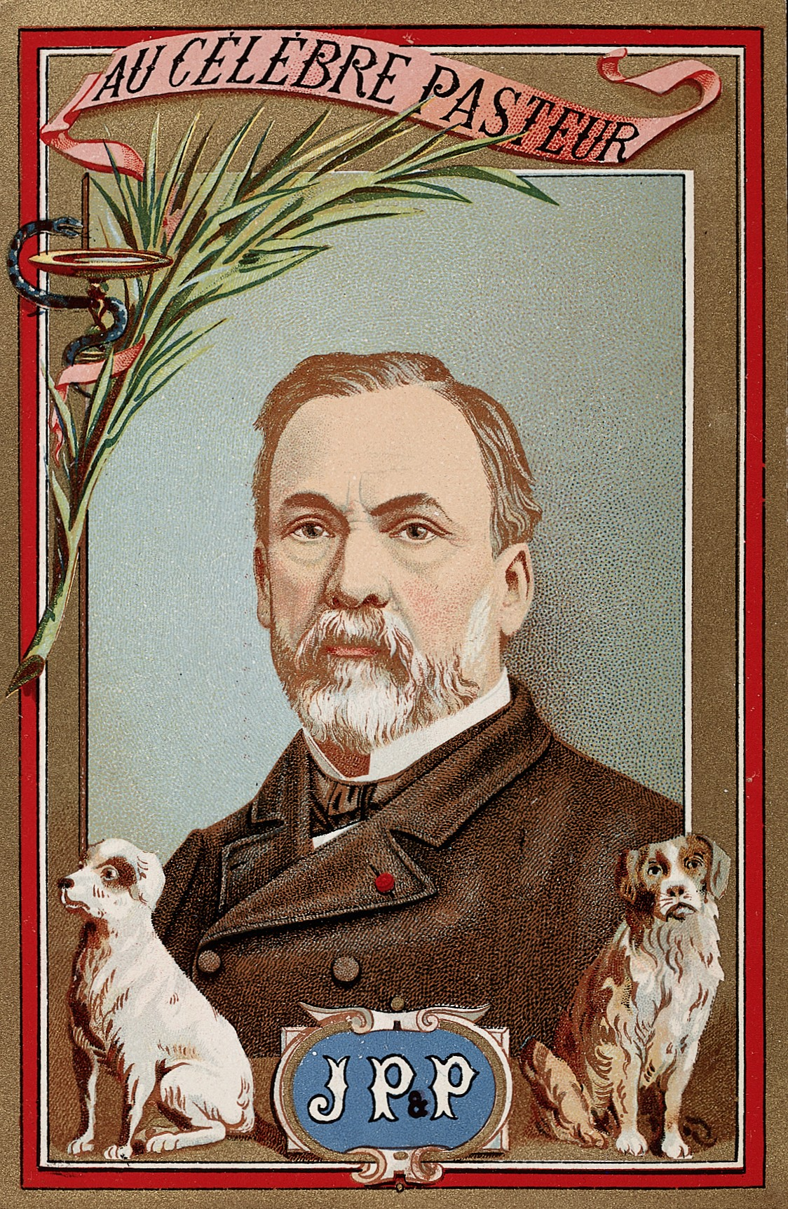 Louis Pasteur, with two dogs (referring to his work on rabies), a palm and a snake around a bowl (indicating achievement in hygiene). Chromolithograph. Iconographic Collections Keywords: brn: 38596; pasteur, louis; PORTRAIT; Rabies; Portraits; Louis Pasteur